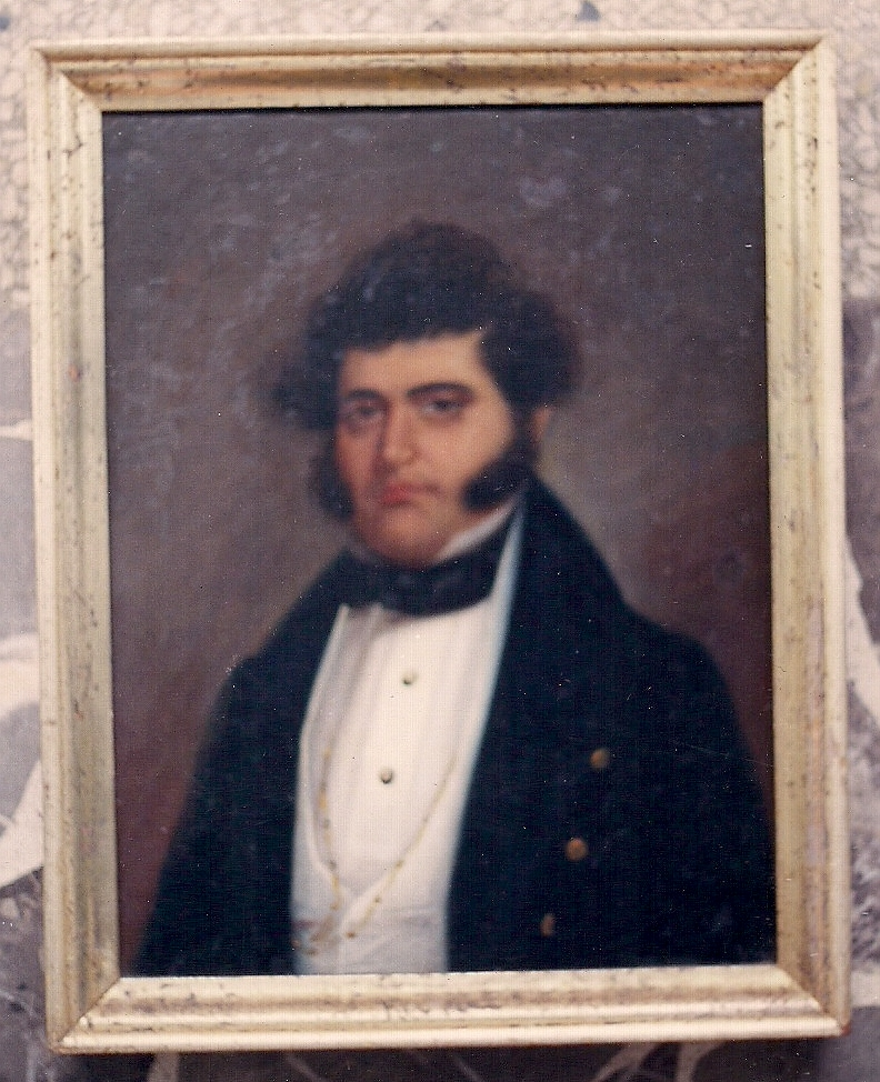 Picture of Don Tomás Mena